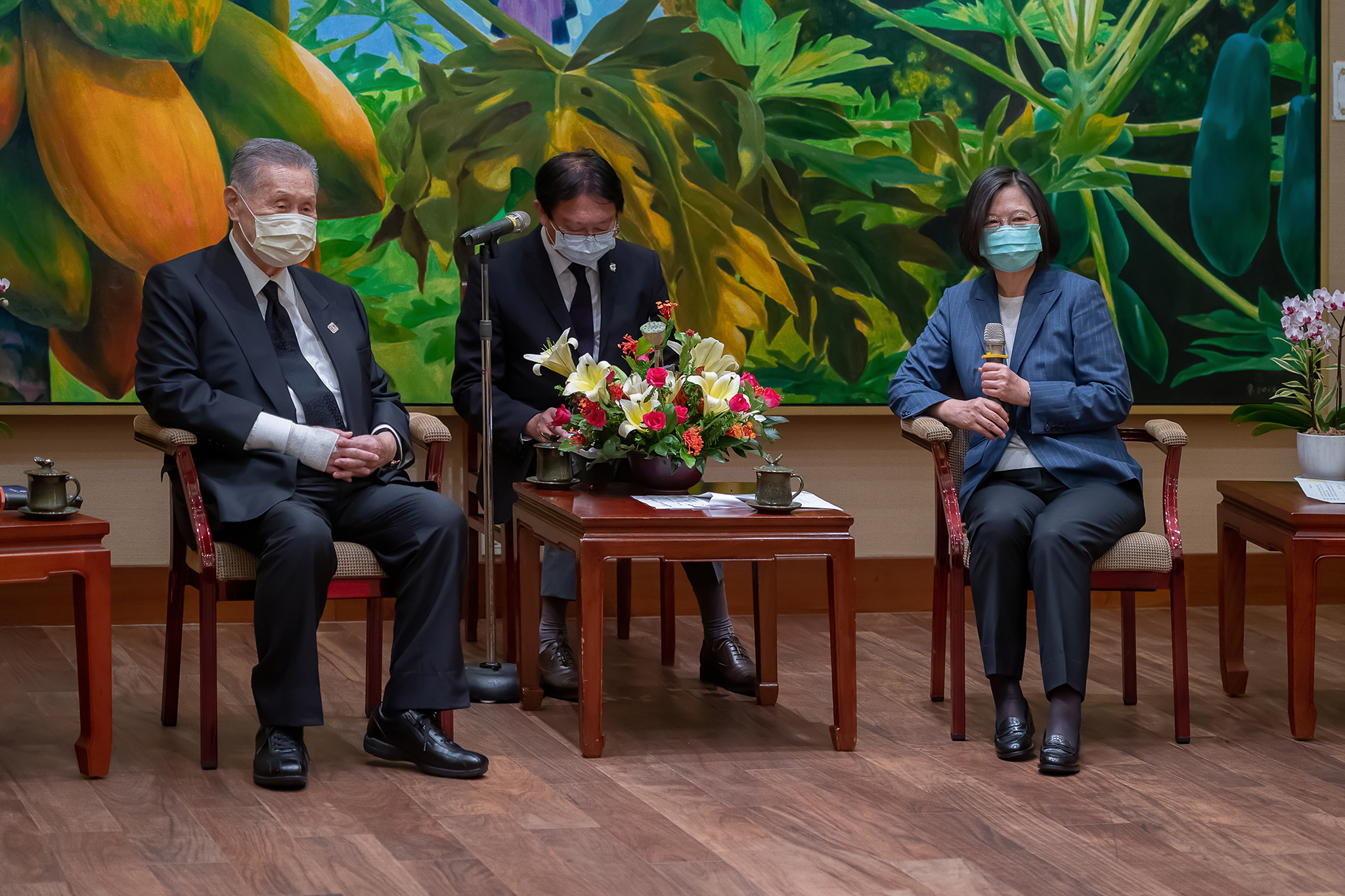 President Tsai Ing-wen and former Japanese Prime Minister Yoshiro Mori